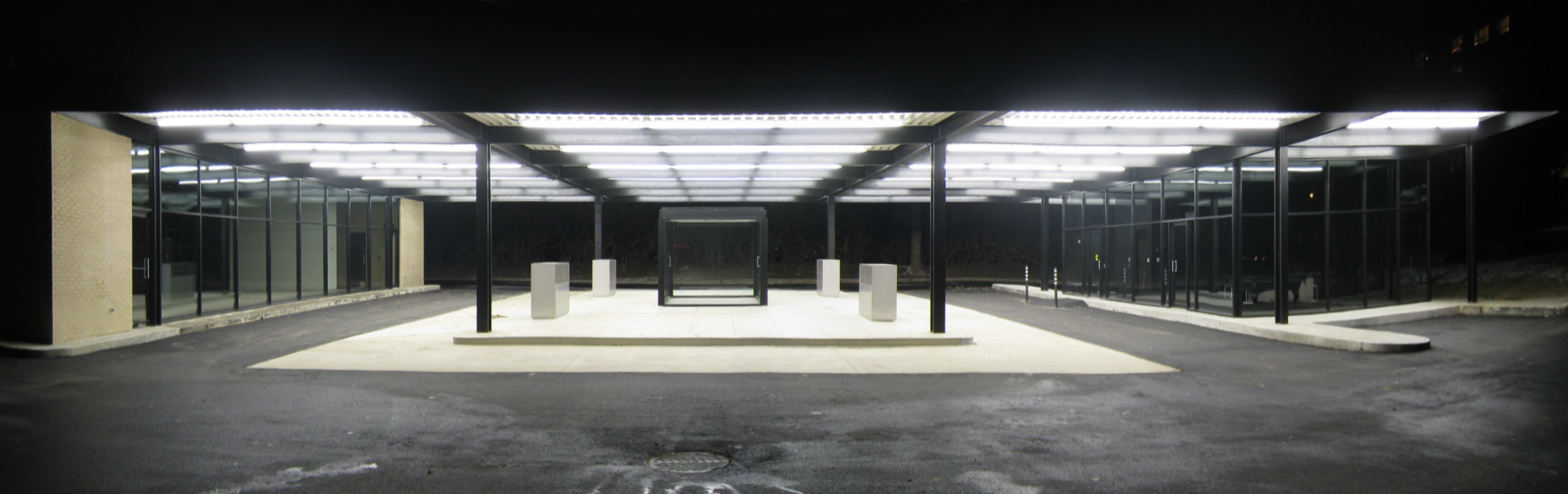 Panorama shot of 'La station' taken near the end of 2011.